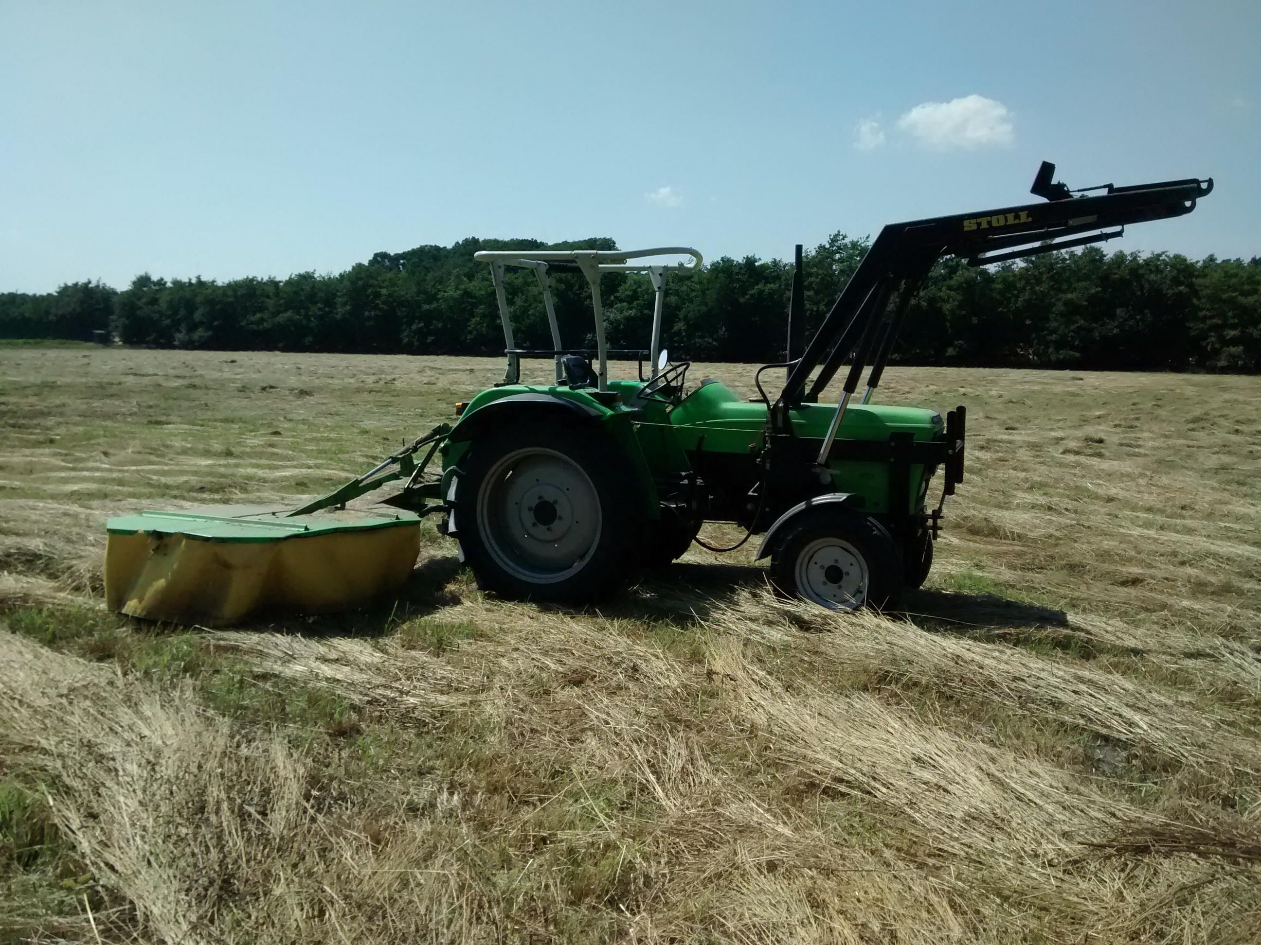 Baujahr: "1985".